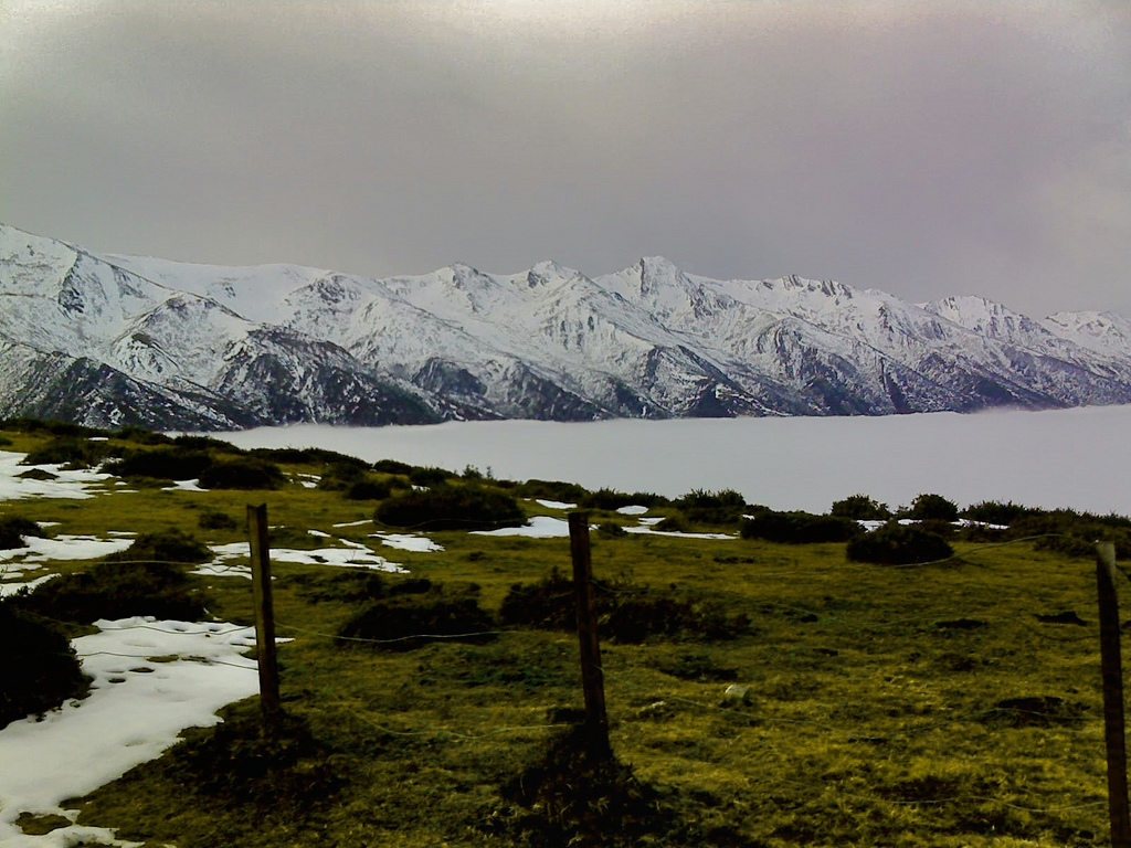 View of the Sierra Peña Sagra from Navas hill (Cantabria, Spain)